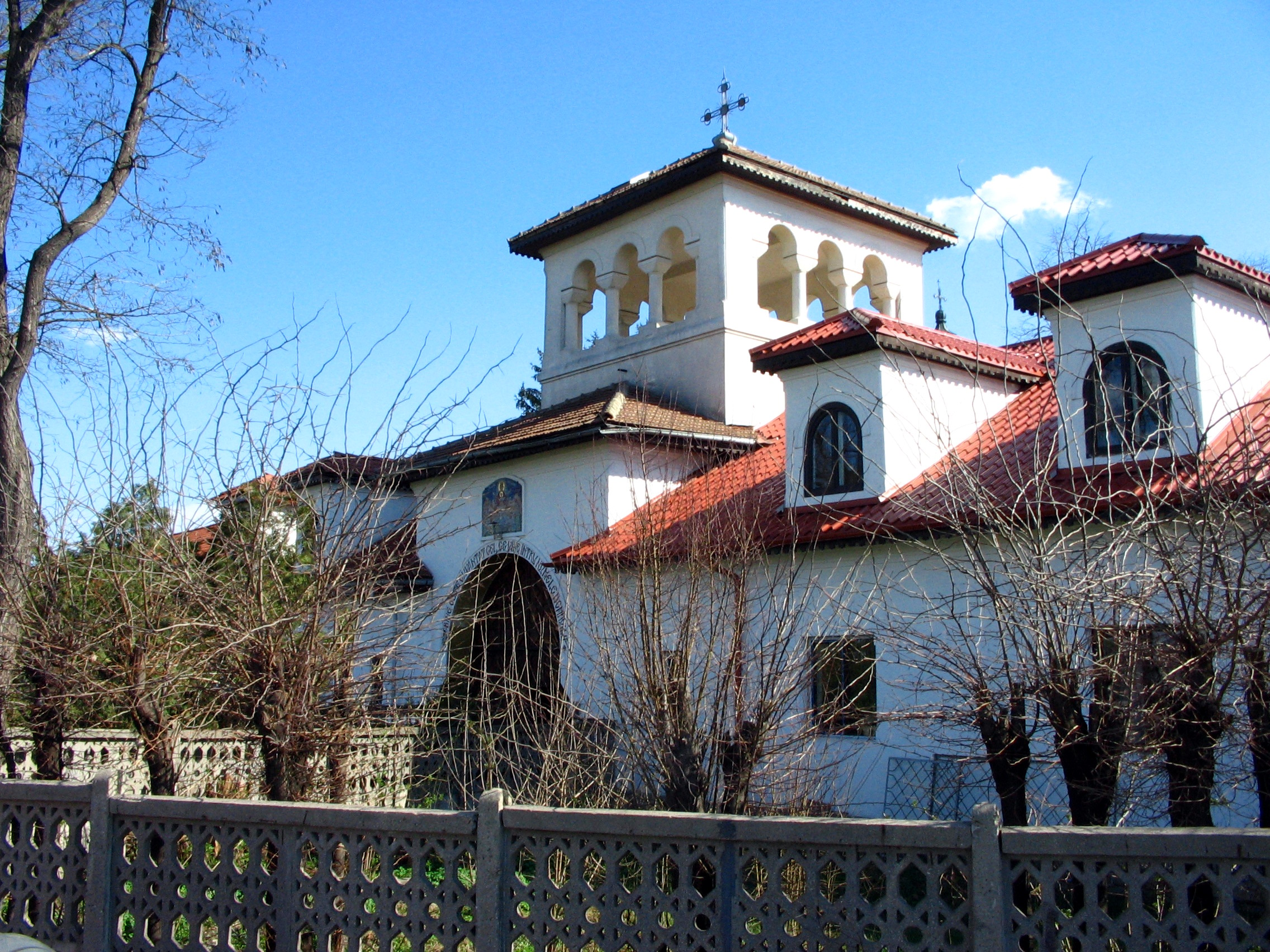 Gateway and belfry of the Ghighiu monastery, near Ploieşti, Romania